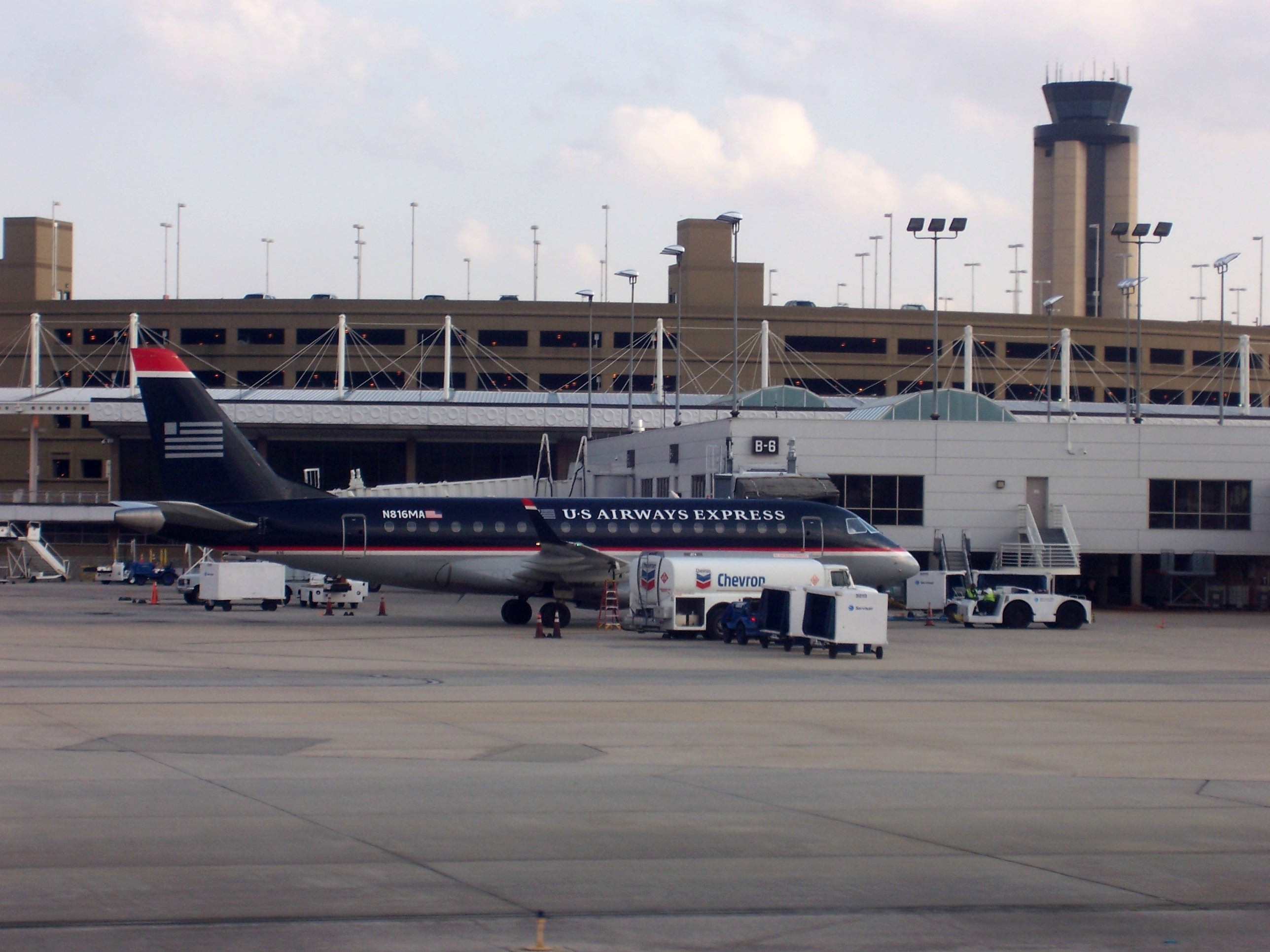 An Embraer 170 (N816MA) belonging to Republic Airlines and operating for U.S. Airways Express. The Embaer was parked at gate B-6 at the Birmingham International Airport (U.S.) in Birmingham, Alabama, USA on 14 March 2008.